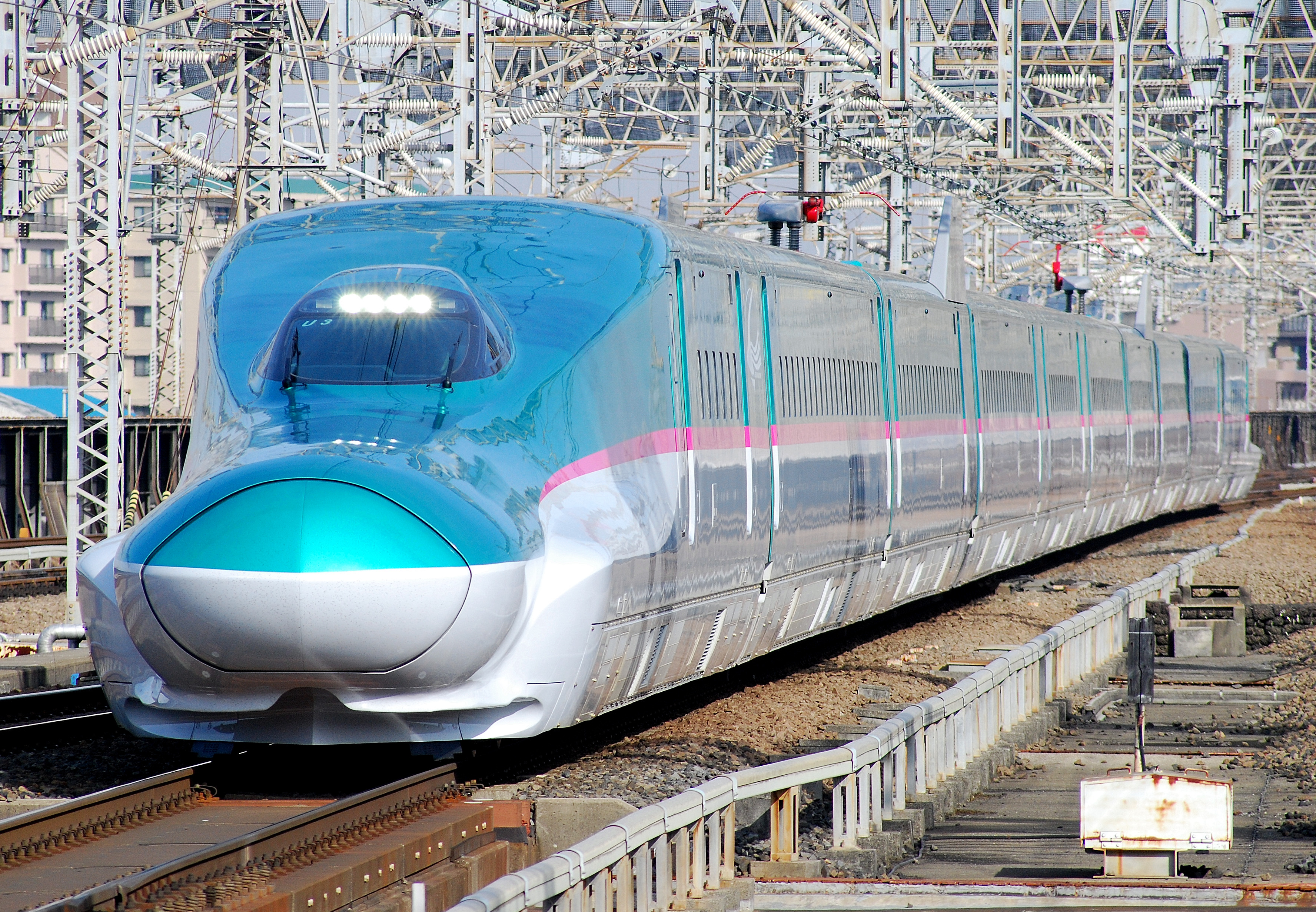 JR East E5 series shinkansen set U3 approaching Omiya Station on the "Hayabusa 4" service to Tokyo